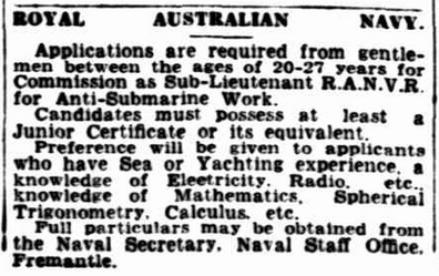 Recruiting advertisement of the Royal Australian Naval Volunteer Reserve (RANVR), 1941. ROYAL AUSTRALIAN NAVY. Applications are required from gentlemen between the ages of 20-27 years for Commission as Sub-Lieutenant R.A.N.V.R. for Anti-Submarine Work. Candidates must possess at least a Junior Certificate or its equivalent. Preference will be given to applicants who have Sea or Yachting experience, a knowledge of Electricity, Radio, etc., knowledge of Mathematics, Spherical Trigonometry, Calculus, etc. Full particulars may be obtained from the Naval Secretary, Naval Staff Office, Fremantle.